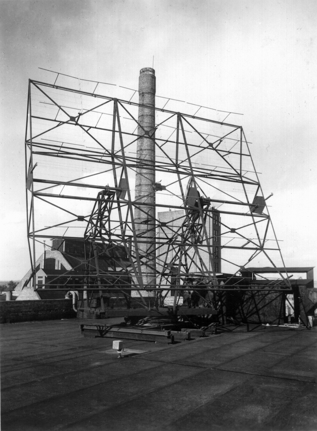 Antenna of Hungarian Moon-radar